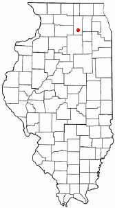 Category:Illinois city locator maps